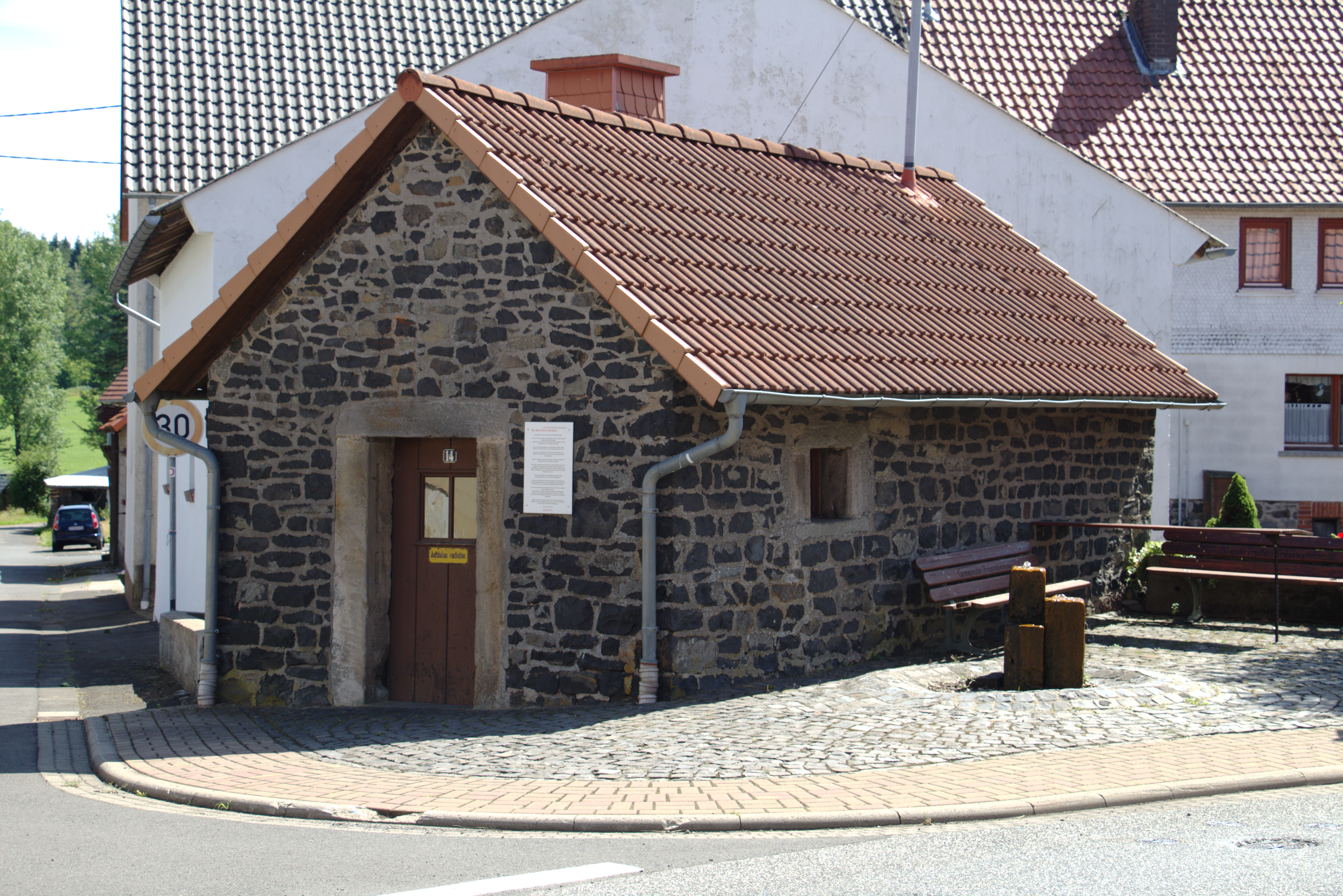 Bake house (Hinterdorfer Backhaus) in Gunzenau Freiensteinau, Hesse, Germany